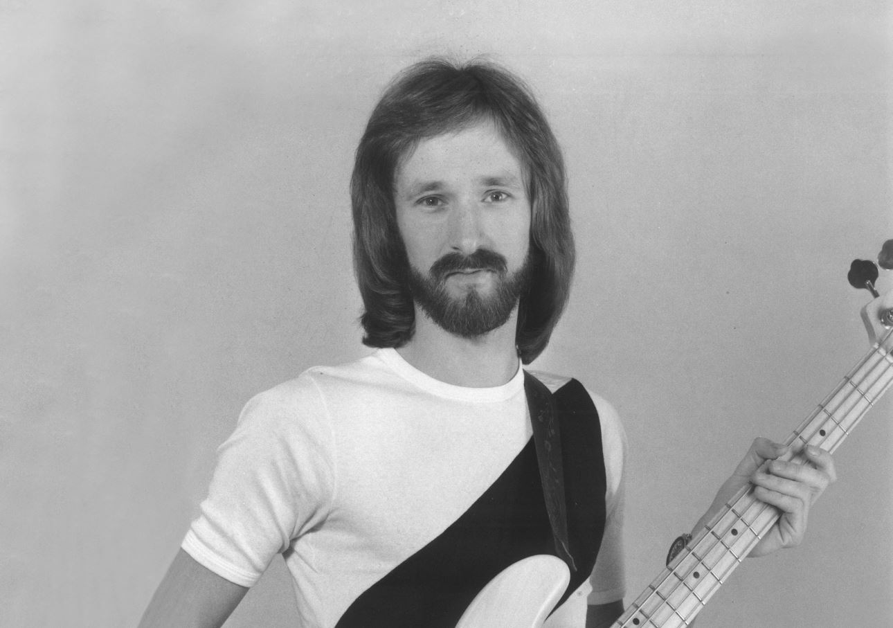 Mr. David Kirby 1980